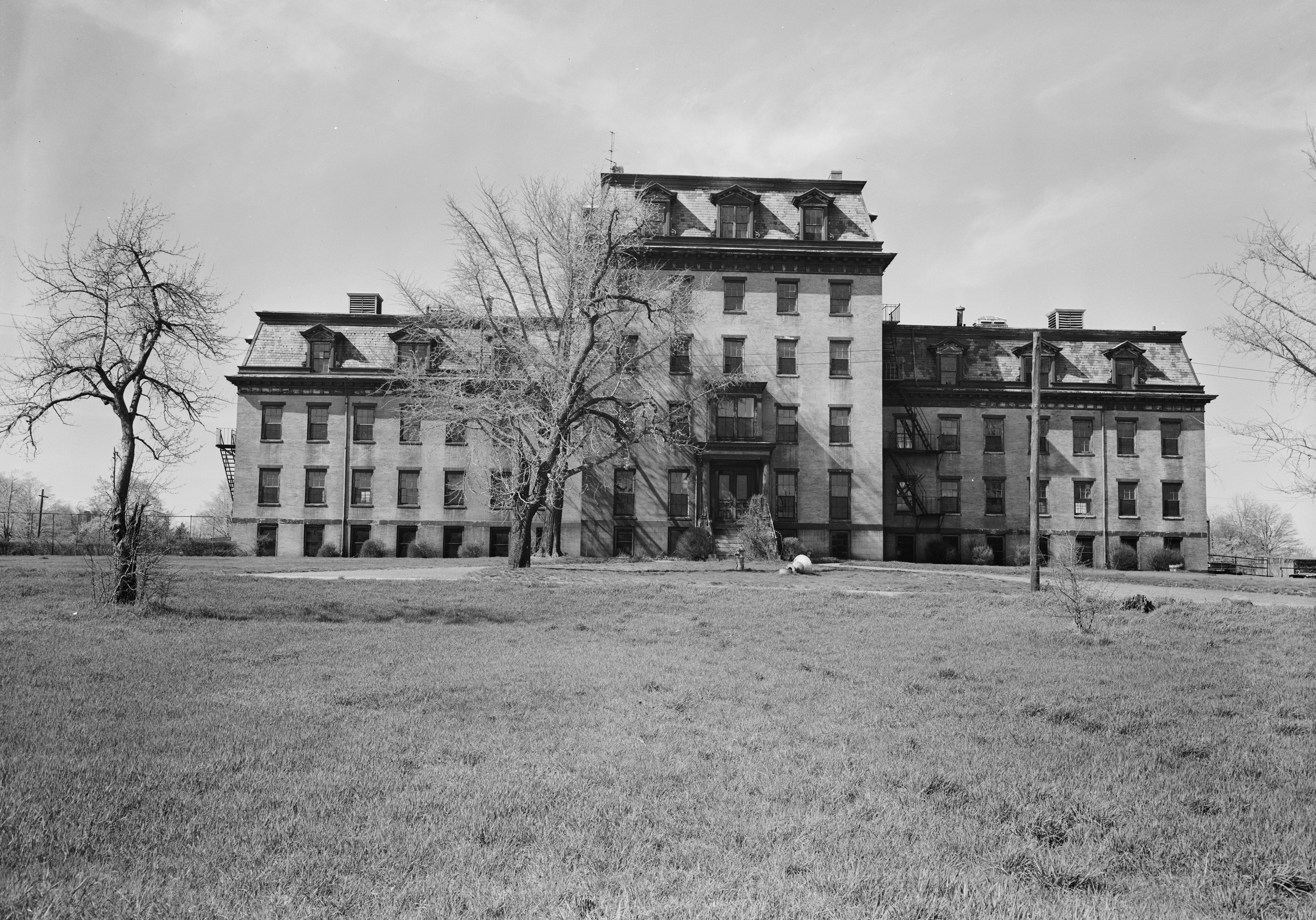 Dexter Asylum (1830 initial construction; Simon Newton Dexter) — Hope Street & Lloyd Avenue, in Providence, Providence County, Rhode Island. Image: Historic American Buildings Survey of Rhode Island.